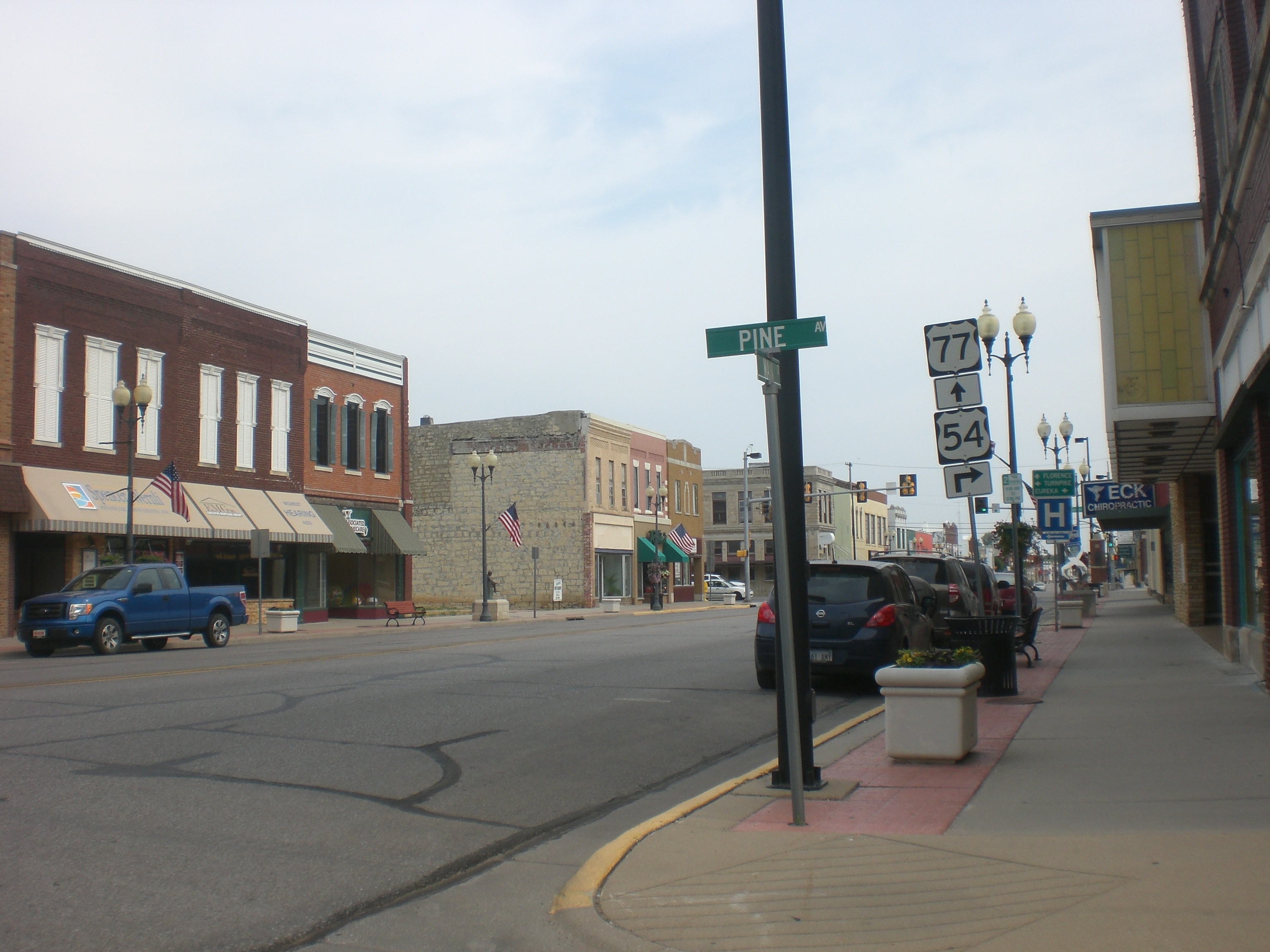 View of main street from pine in El Dorado, KS